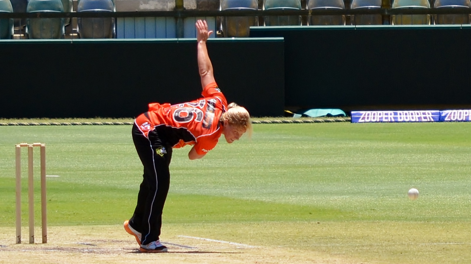 Katherine Brunt bowling for Perth Scorchers (WBBL) against Sydney Thunder (WBBL) at the WACA Ground, Perth, Australia.